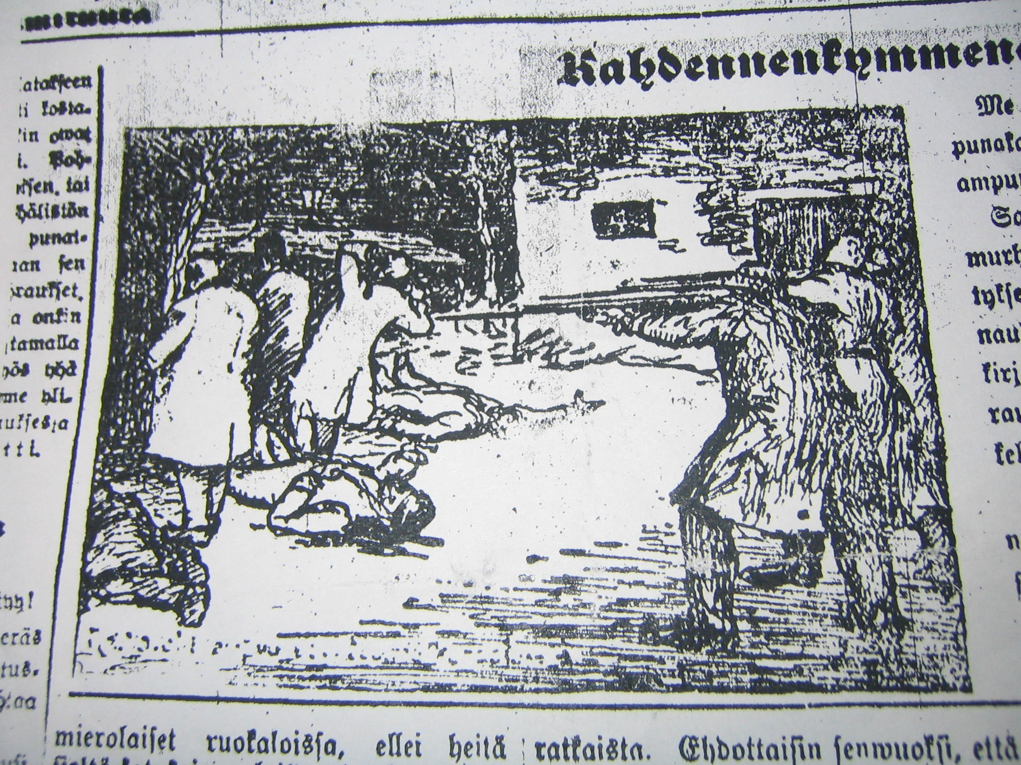 Finnish red guards and russian soldiers shooting white prisoners during the Finnish civil war